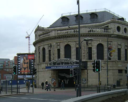 Majestyk, one of Leeds night-clubs.